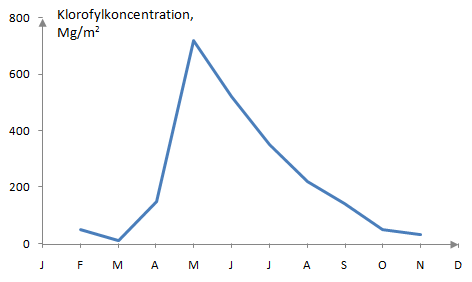 Concentration of chlorophyll as function of time of year .